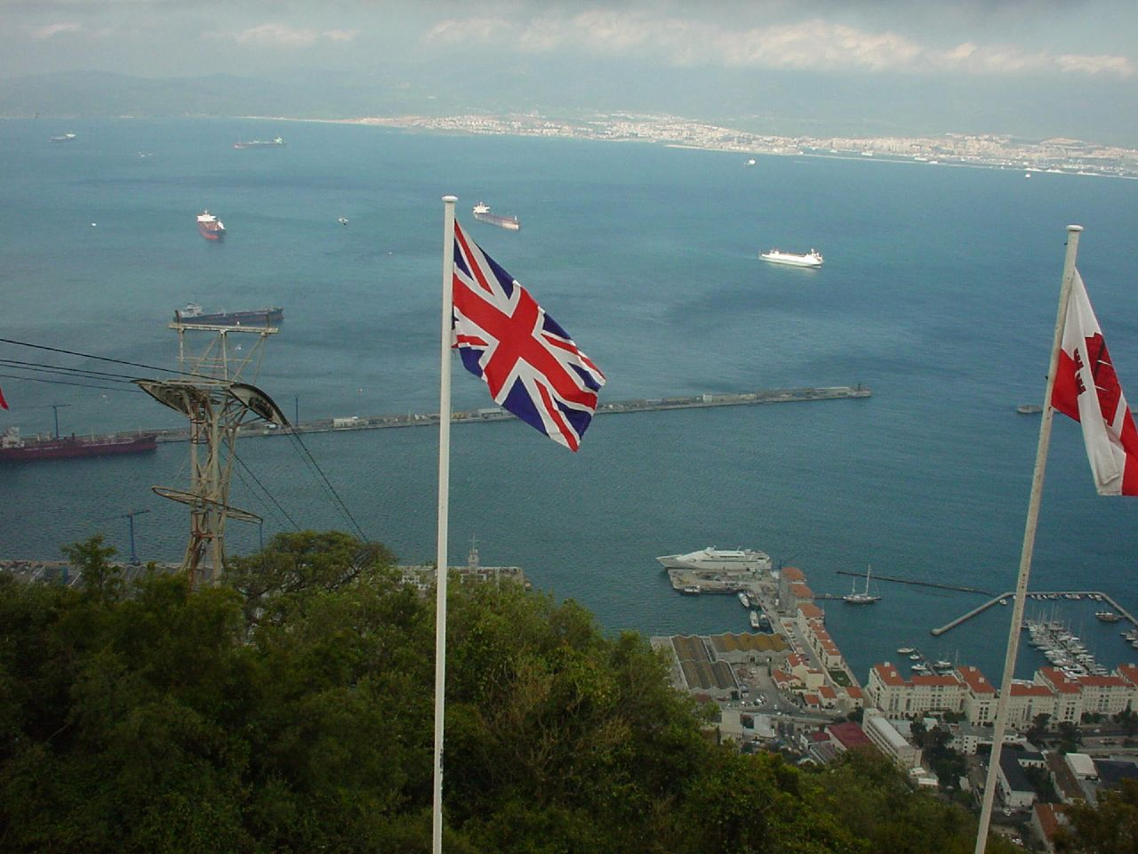 The Union Flag and Gibraltar flag at the Cable Car Station on the Rock of Gibraltar.